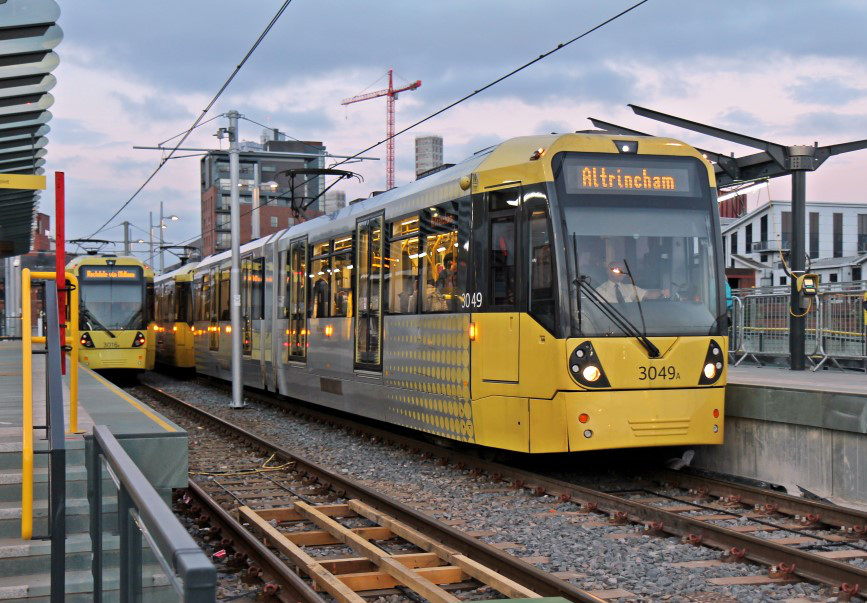 Metrolink units, Deansgate-Castlefield tram stop